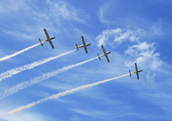 Green Hawk Aerobatic Team perform in SAREX 2008 at Hua Hin Airport 30 may 2008.